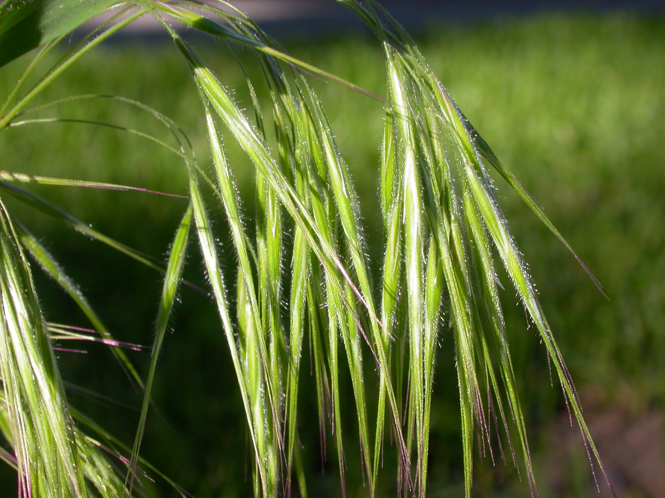 The spikelets comprise lemmas with long tips that taper nearly imperceptibly into the apical awn.